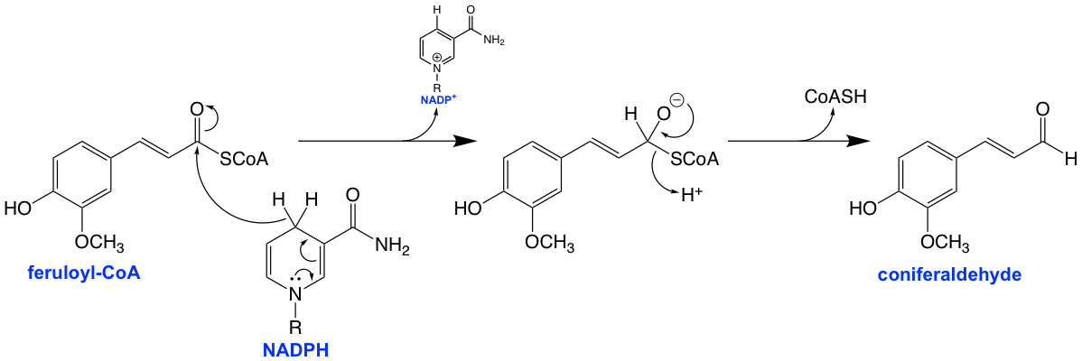 This image is the electron-pushing mechanism for the reduction of feruloyl-CoA to coniferaldehyde as catalyzed by the enzyme CCR.